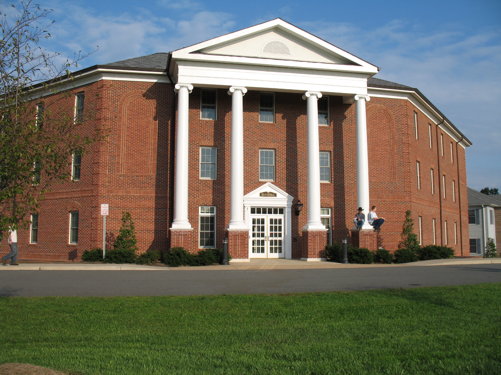 Red Hill. Image taken by Patrick McKay (DebateLord) on September 14, 2006